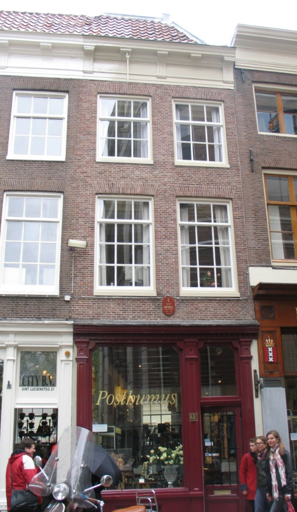 House in Amsterdam, used in 1776/1777 by Mirabeau to hide